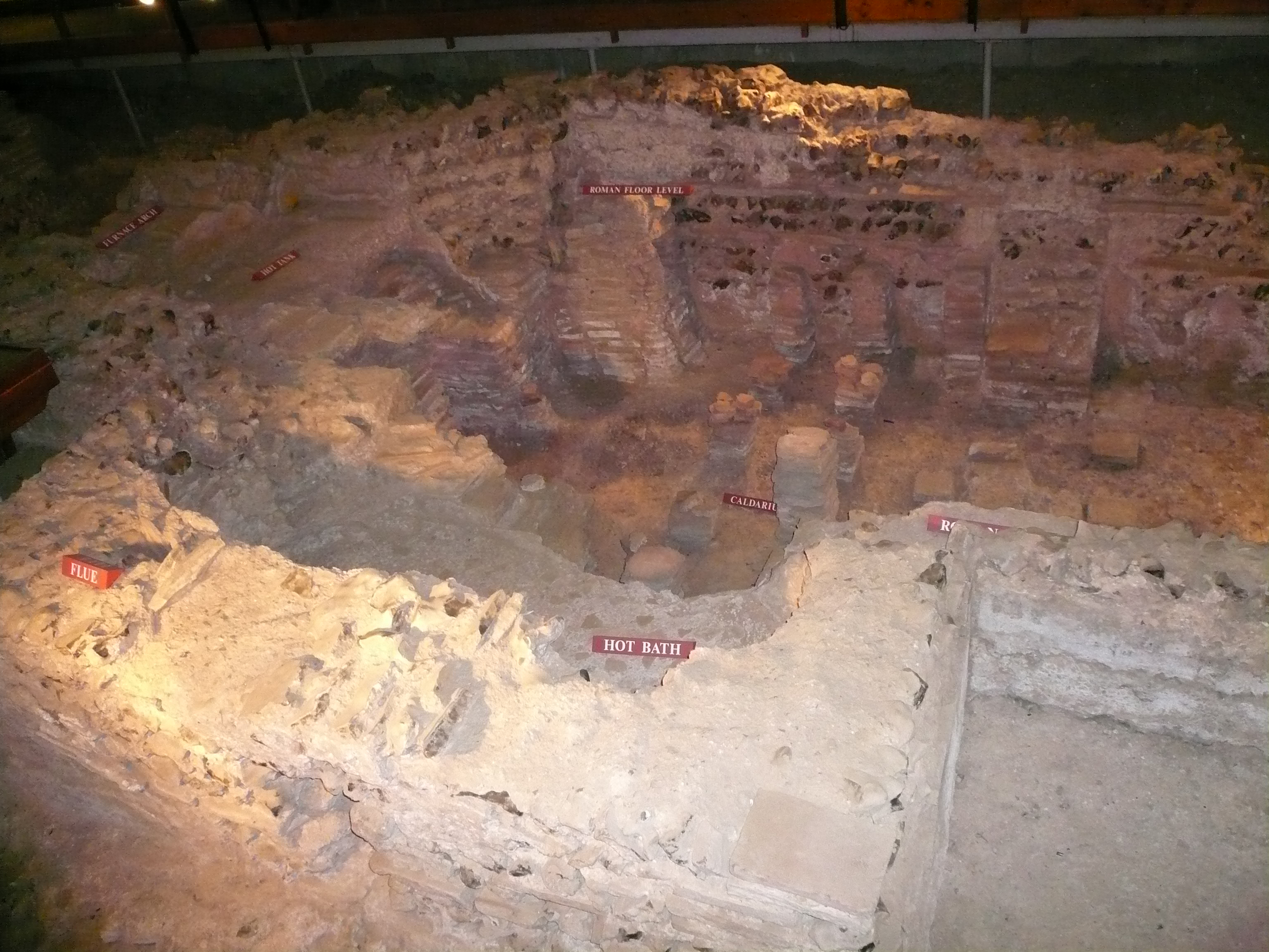 Welwyn Roman baths (Photograph May 2007)